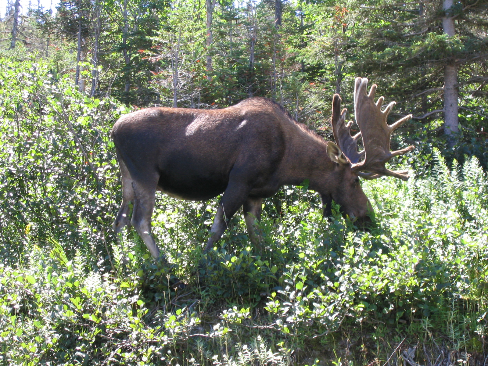 Bull Moose, Gros Morne National Park, Newfoundland